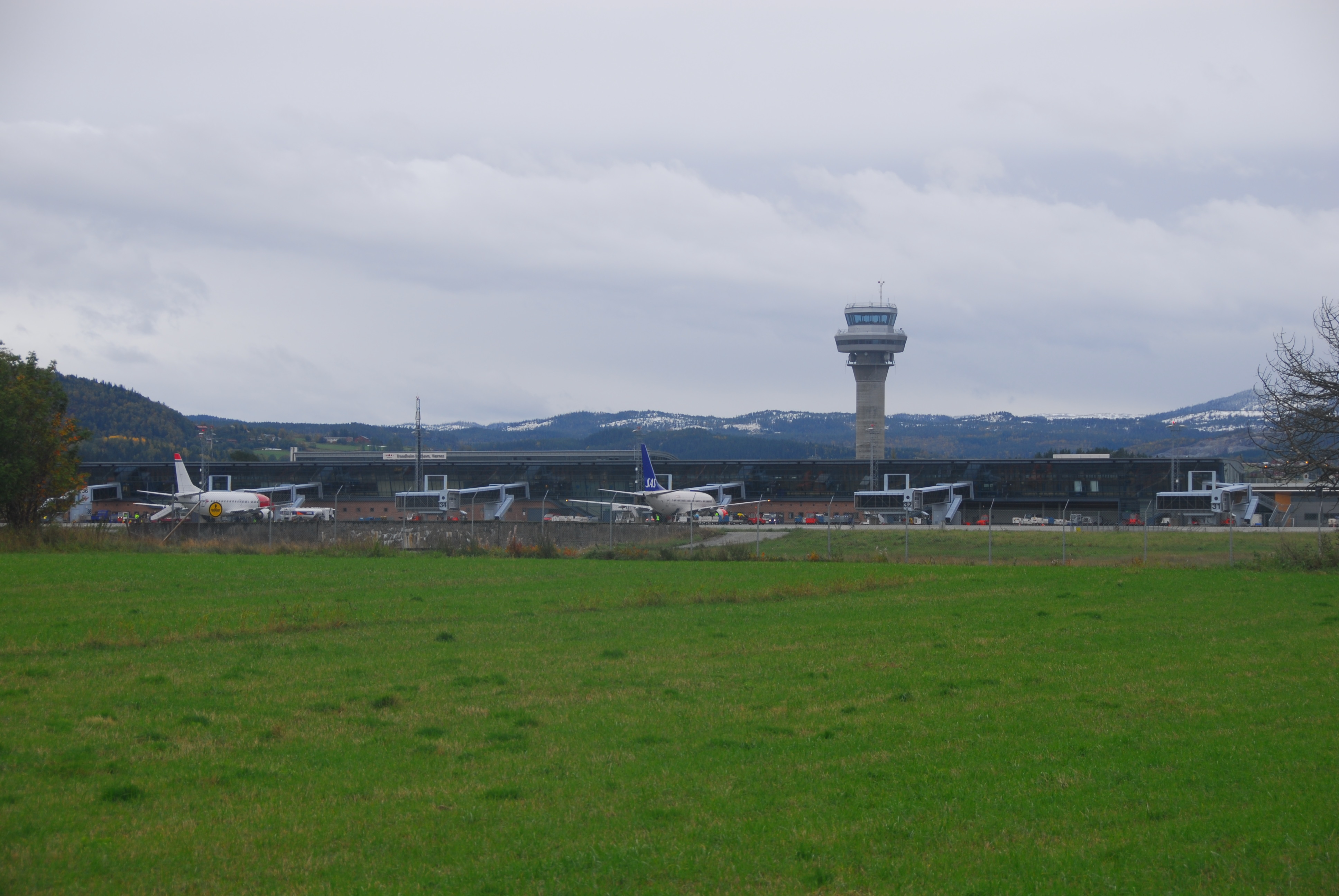 Parts of Terminal A at Trondheim Airport, Værnes